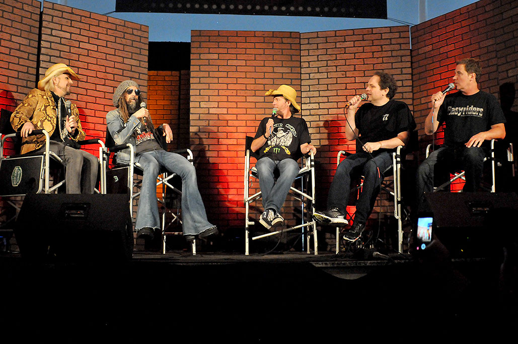 That Metal Show at Rock on the Range 2016 with Eddie Trunk, Jim Florentine and Don Jamieson with guests Rob Zombie and John 5 at MAPFRE Stadium in Columbus, OH, USA on May 21, 2016